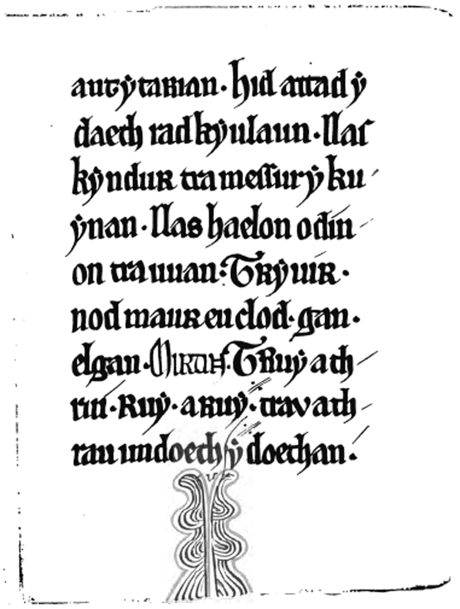 Facsimile of a page from the Black Book of Carmarthen